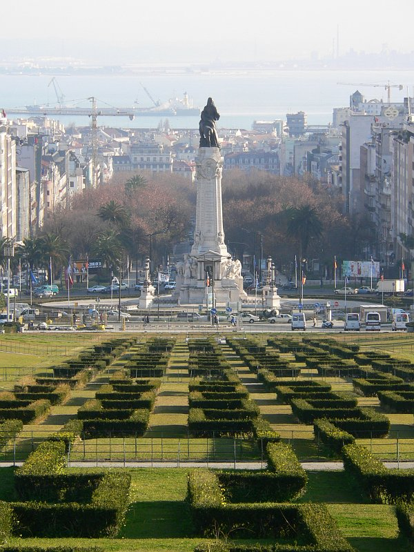 Vista of Lisbon, Portugal. Looking down Parque Eduardo VII to Praça Marques de Pombal and beyond to the River Tejo.